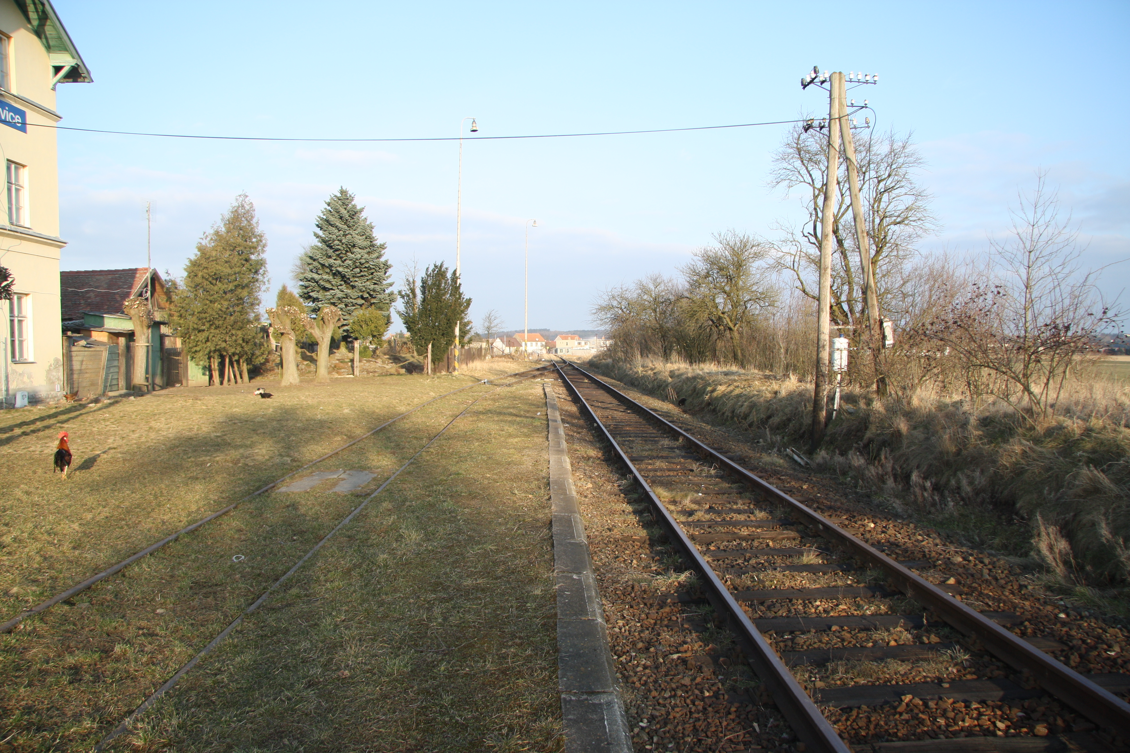 Railway line 243 near Třebelovice Train Station, Třebíč District.